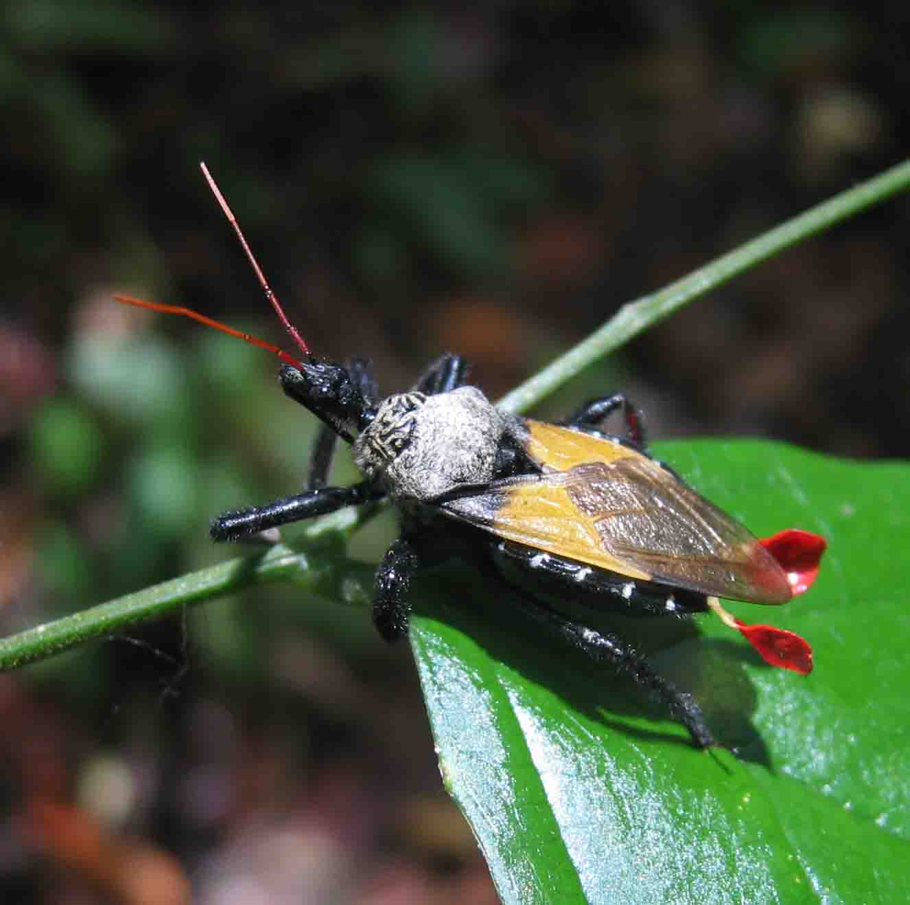 Photograph by Dirk van der Made (User:DirkvdM - for more photos see user:DirkvdM/Photographs). Photo taken in the Parque Nacional Corcovado, Costa Rica, 29 March 2004. A beautiful bee-like creature, about 2 cm long (excluding the antennae). It made a sound like a very big bee. Does anyone know what it is called? Over at the science reference desk it was suggested that it is a heteroptera, or, more specifically, a Reduviid.